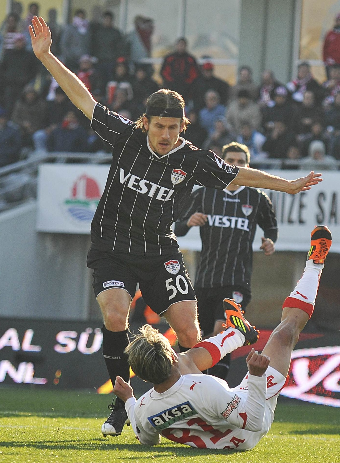 Photo : Koray Geçgel & Murat Özgen